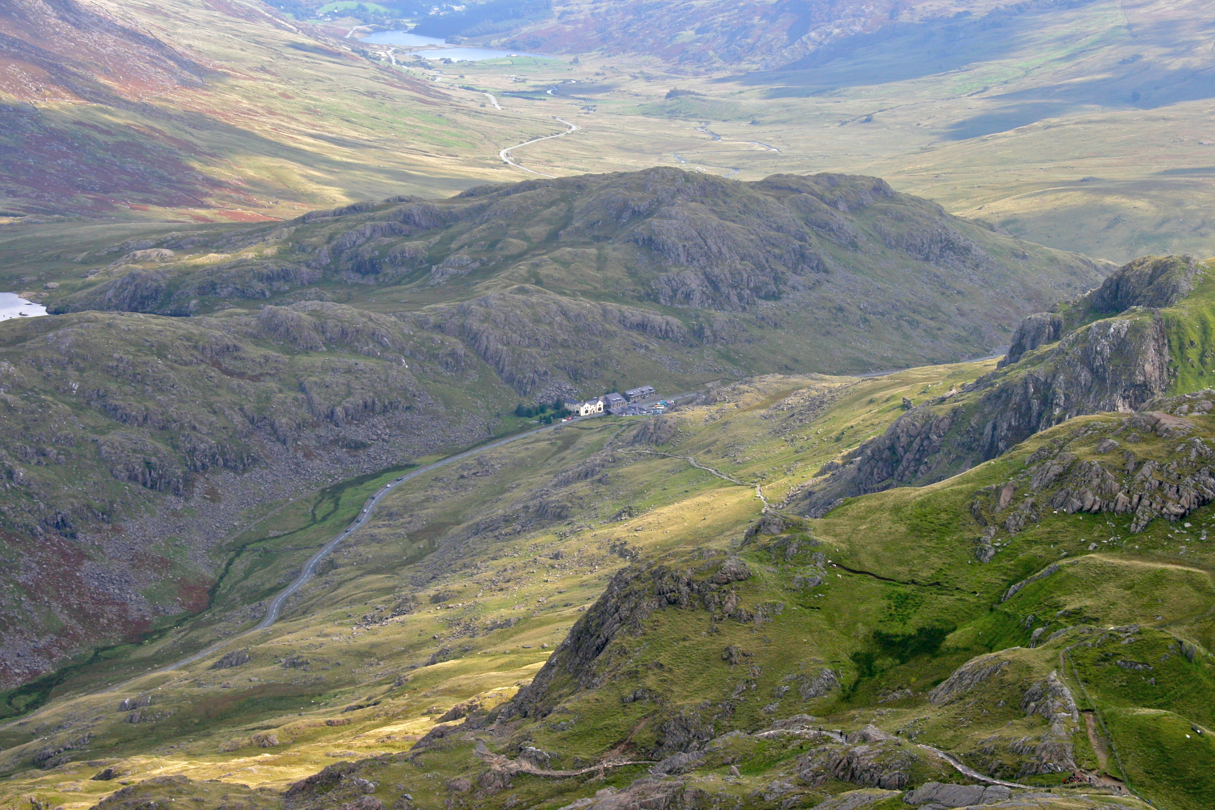 Looking down into Pen Y Pass from Crib Goch